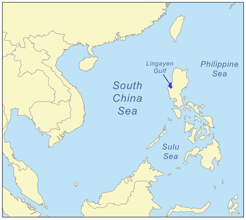 Locator map for the Lingayen Gulf.